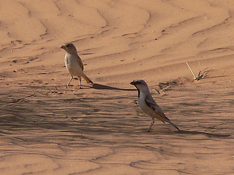 Pair of Desert Sparrows (Passer simplex saharae) near Benichab, Mauritania